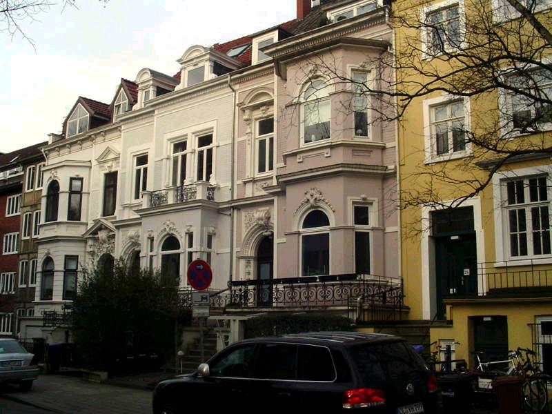 row of houses in the street "Am Barkhof" in Bremen-Schwachhausen, Germany